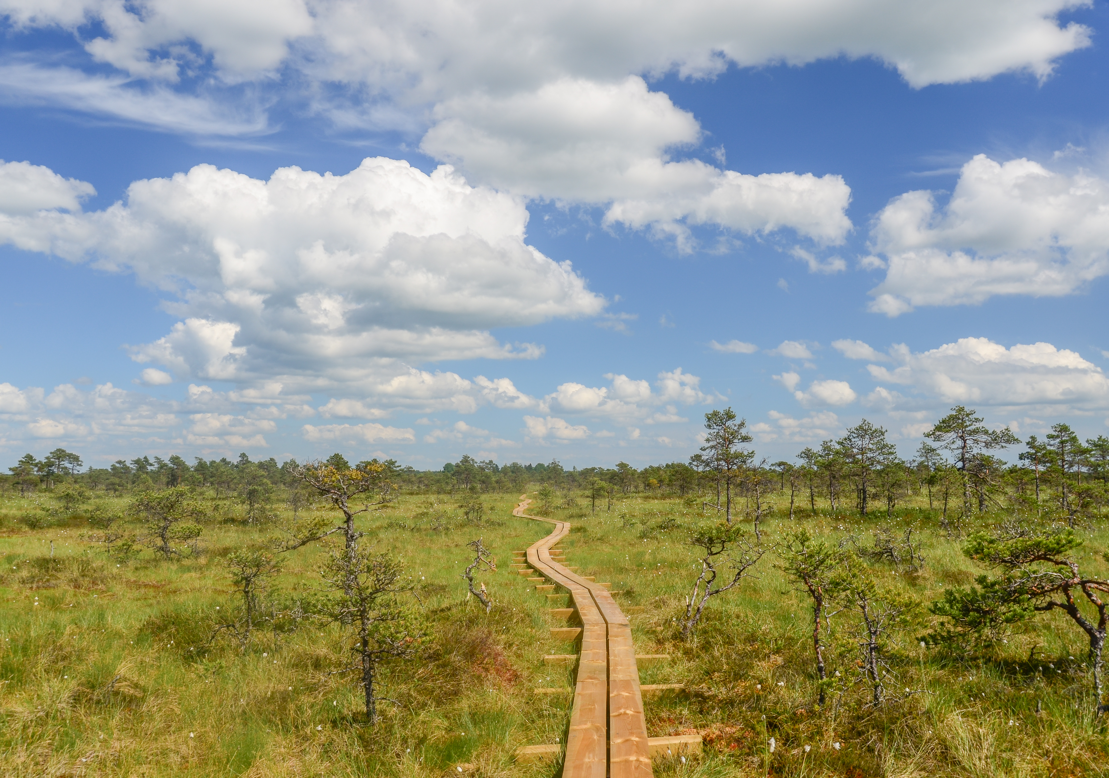 Boardwalk at Kodru Bog